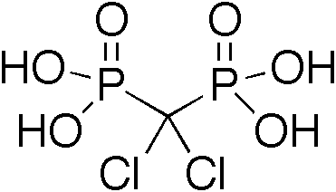 Chemical structure of cludronic acid